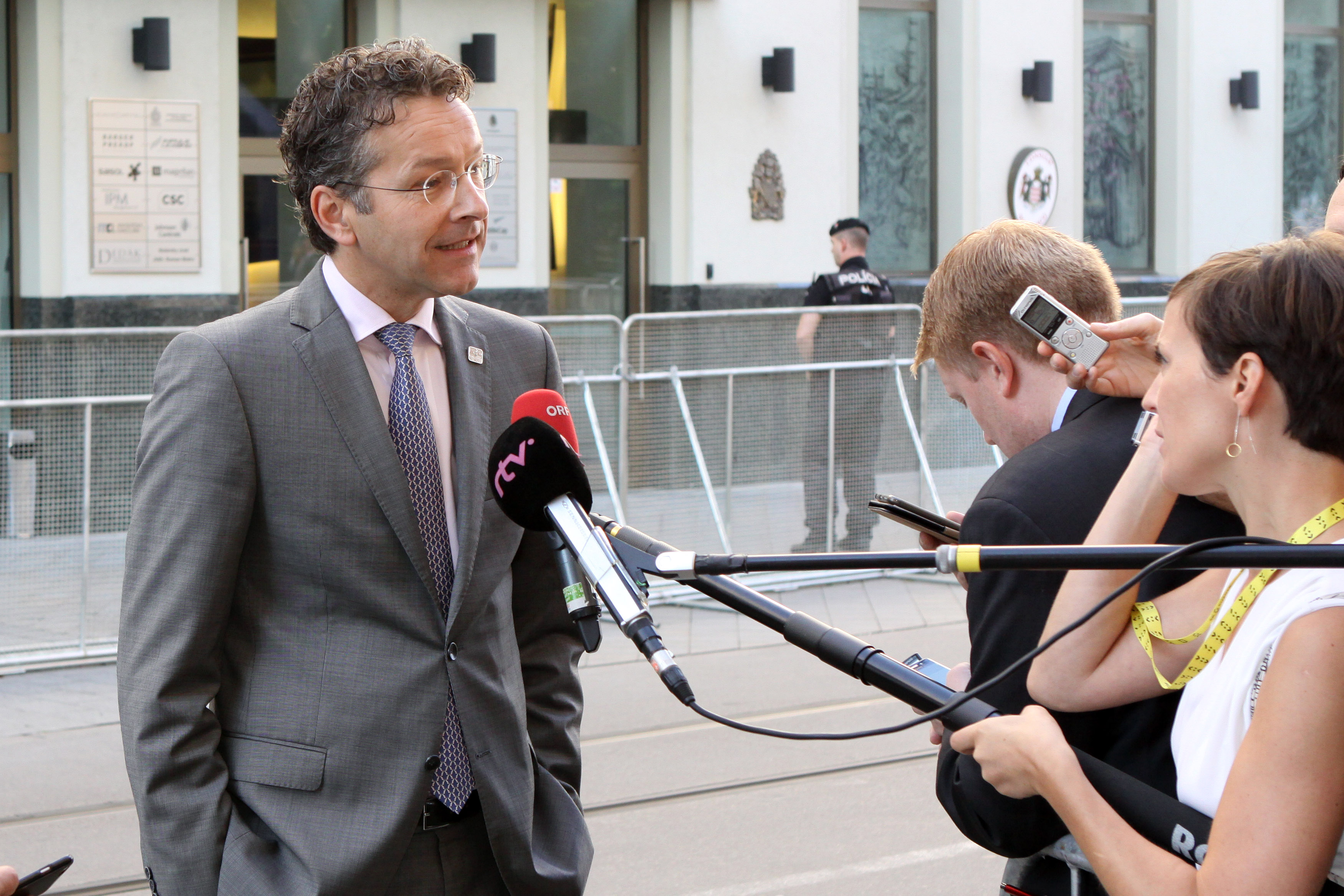 Netherlands, Mr. Jeroen Dijsselbloem, Minister of Finance Informal Meeting of Ministers for Economic and Financial Affairs (Informal ECOFIN) Photo: Andrej Klizan